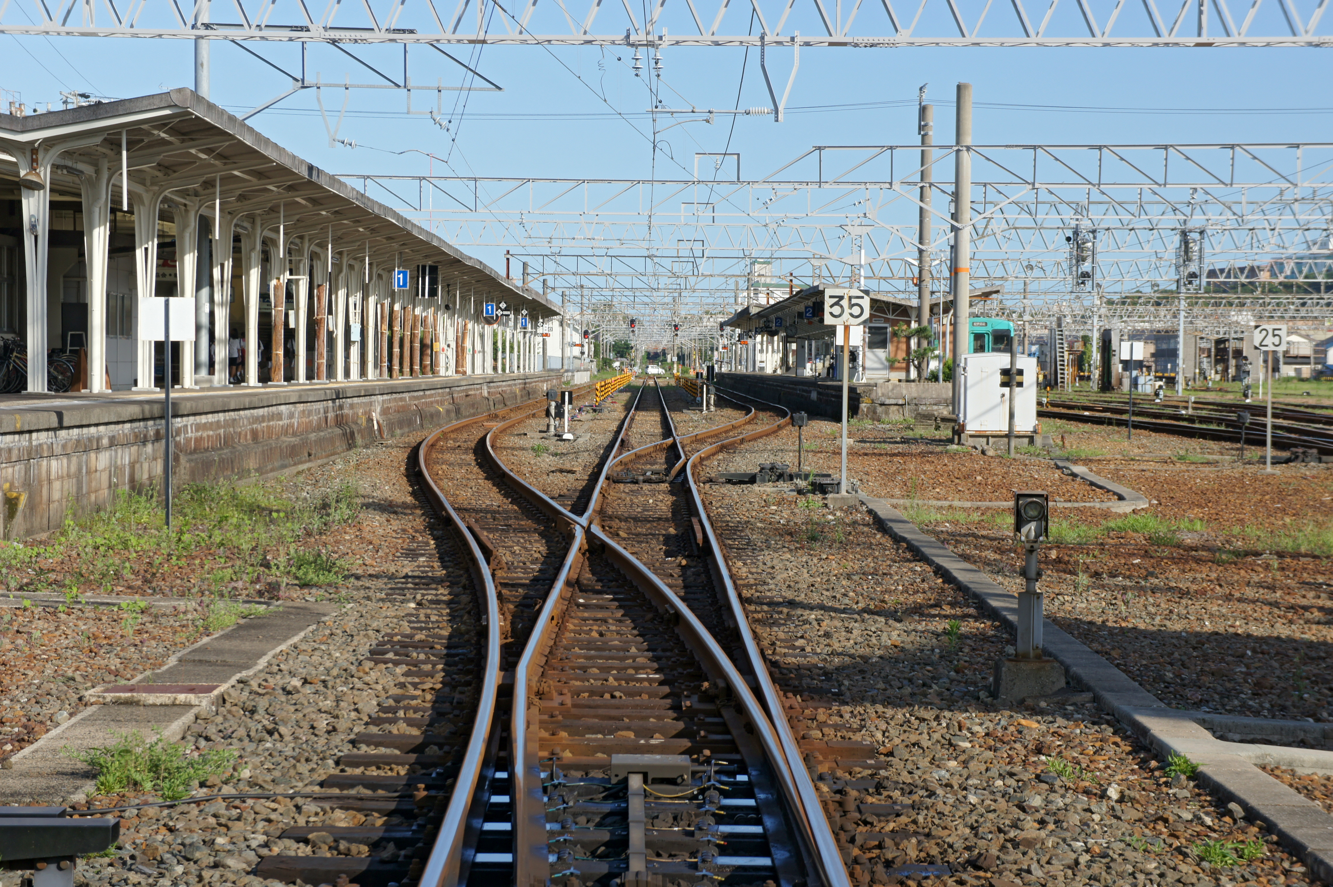 Shingu Station in Shigu, Wakayama prefecture, Japan